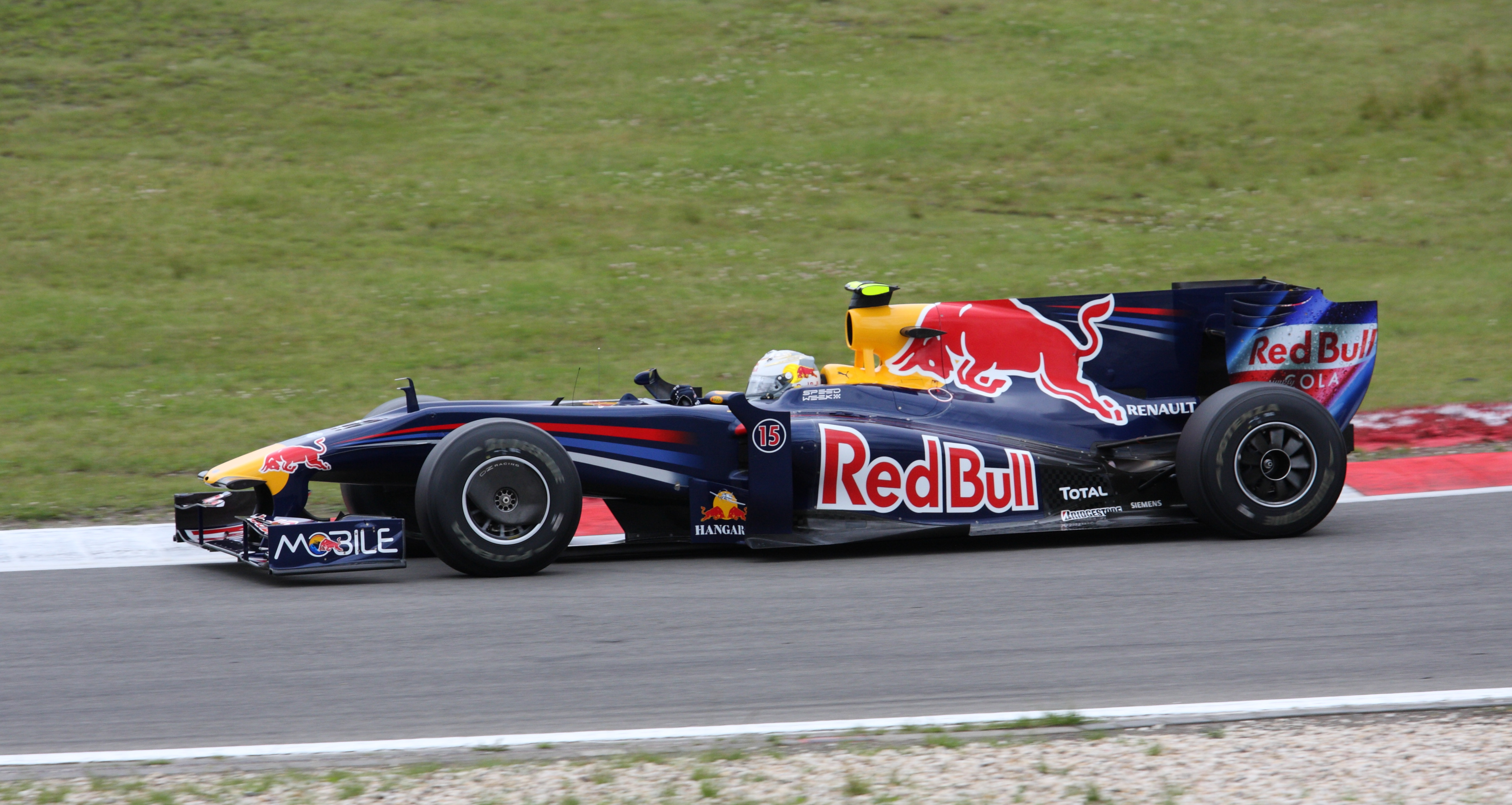 Sebastian Vettel driving for Red Bull Racing at the 2009 German Grand Prix.